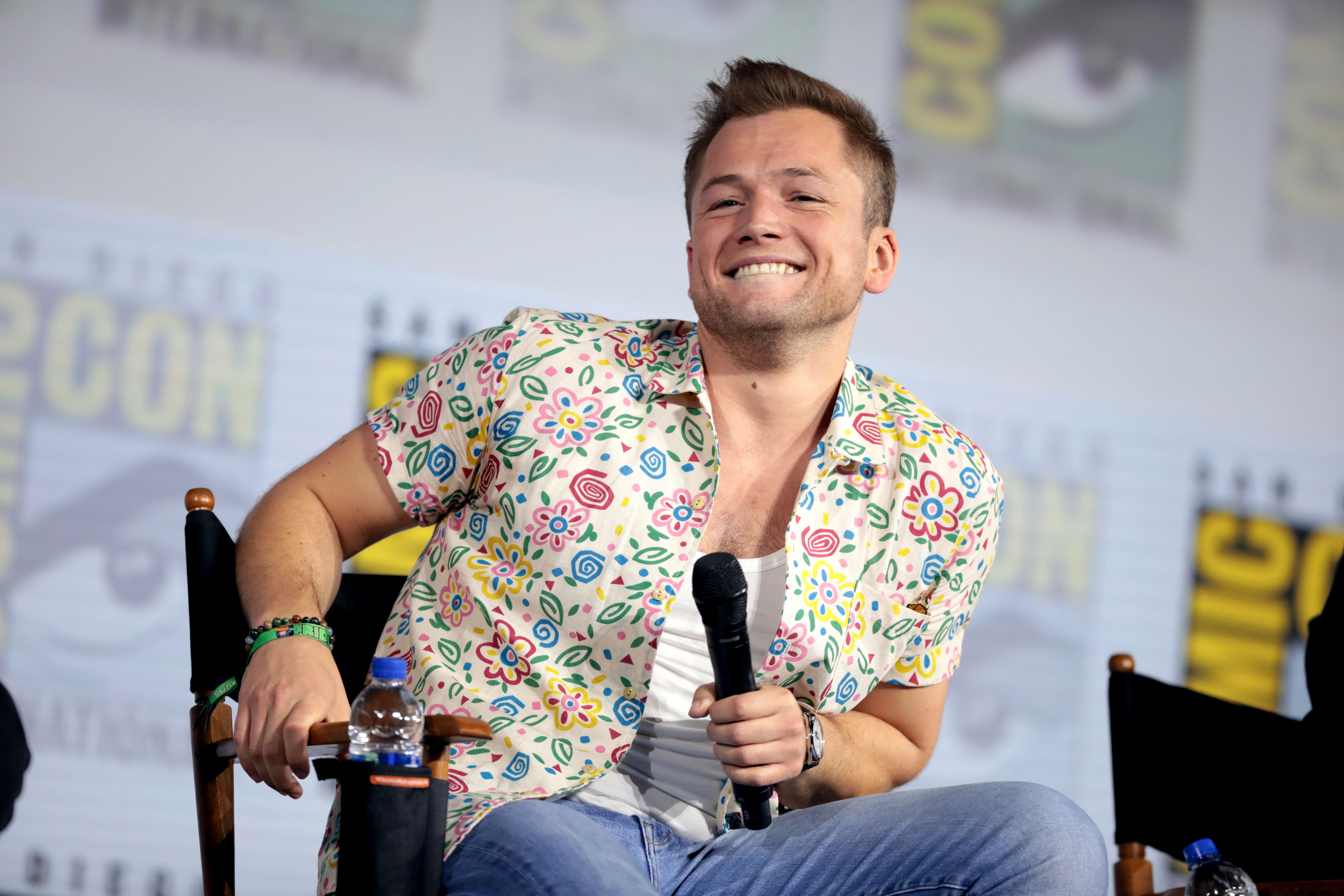 Taron Egerton speaking at the 2019 San Diego Comic Con International, for "The Dark Crystal: Age of Resistance", at the San Diego Convention Center in San Diego, California.